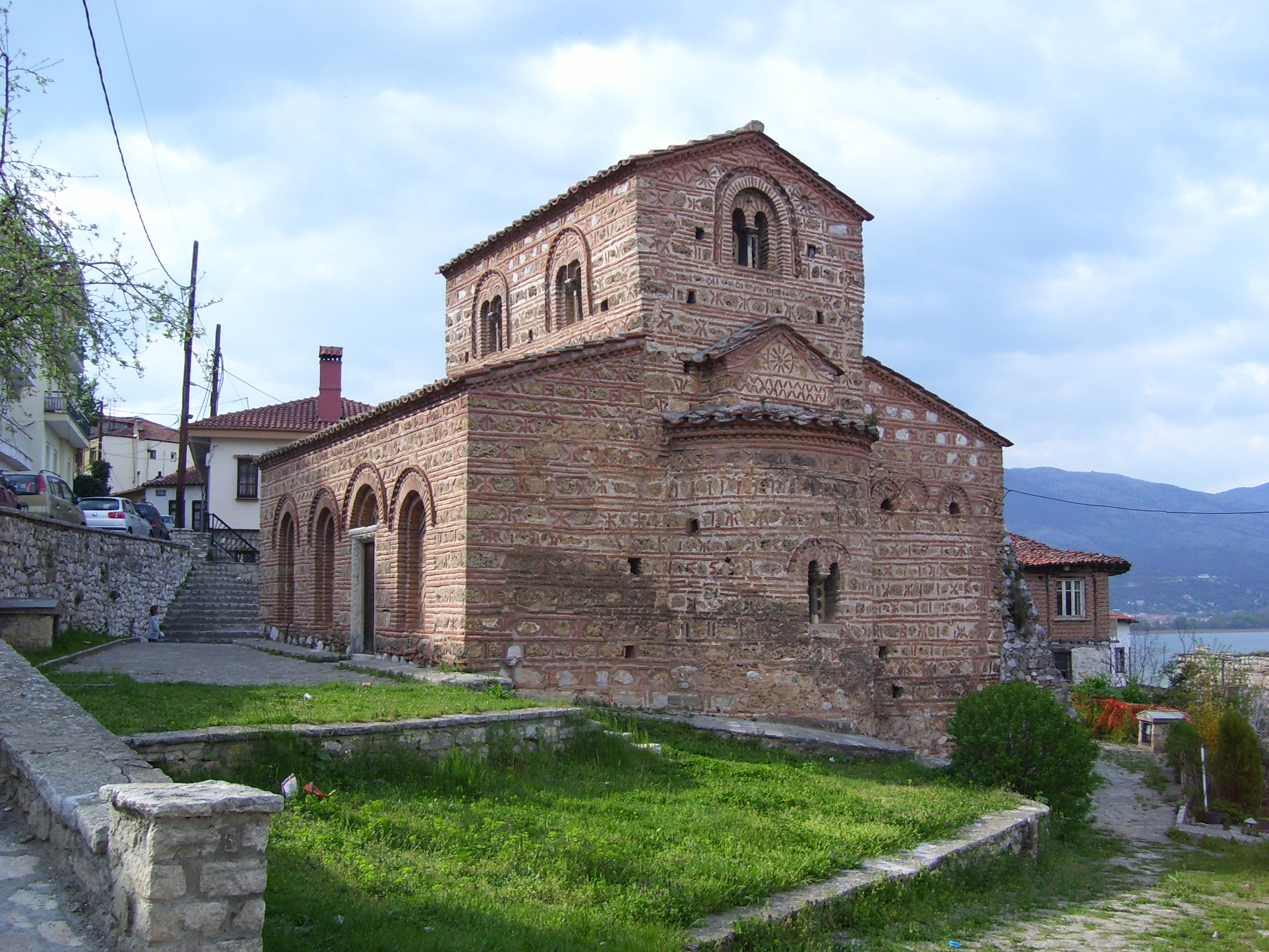 Church of „Agii Anargiri“ in Kasoria, Greece.